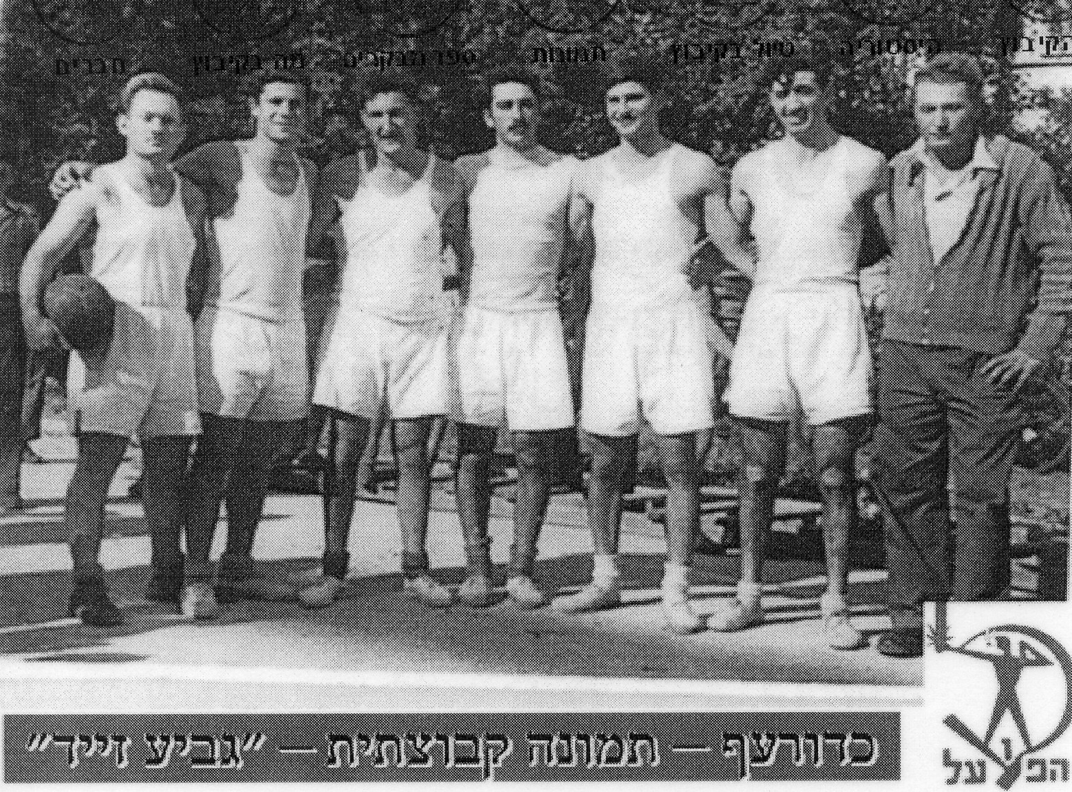 Gan-Shmuel sg8- 28, Sports in Israel